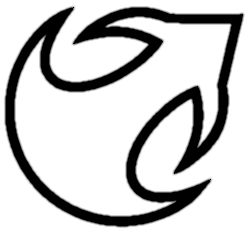 Magic: The Gathering expansion symbol of From The Vault: Exiled.